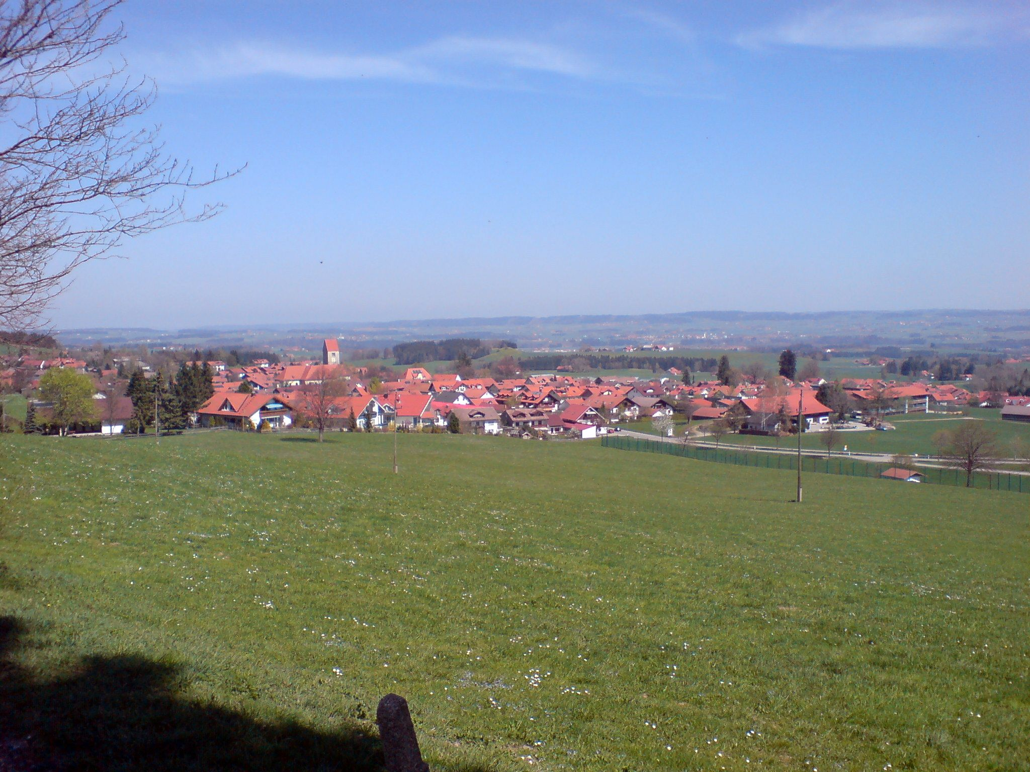 panoramic view of the municipality Wiggensbach (Swabia)